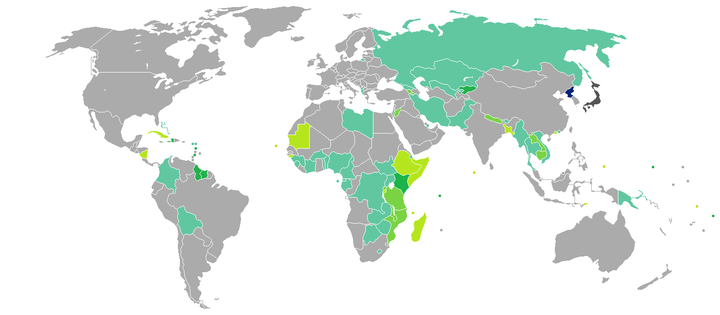 Visa requirements for North Korean citizens North Korea Visa free access Visa on arrival eVisa Visa available both on arrival or online Visa required Admission refused